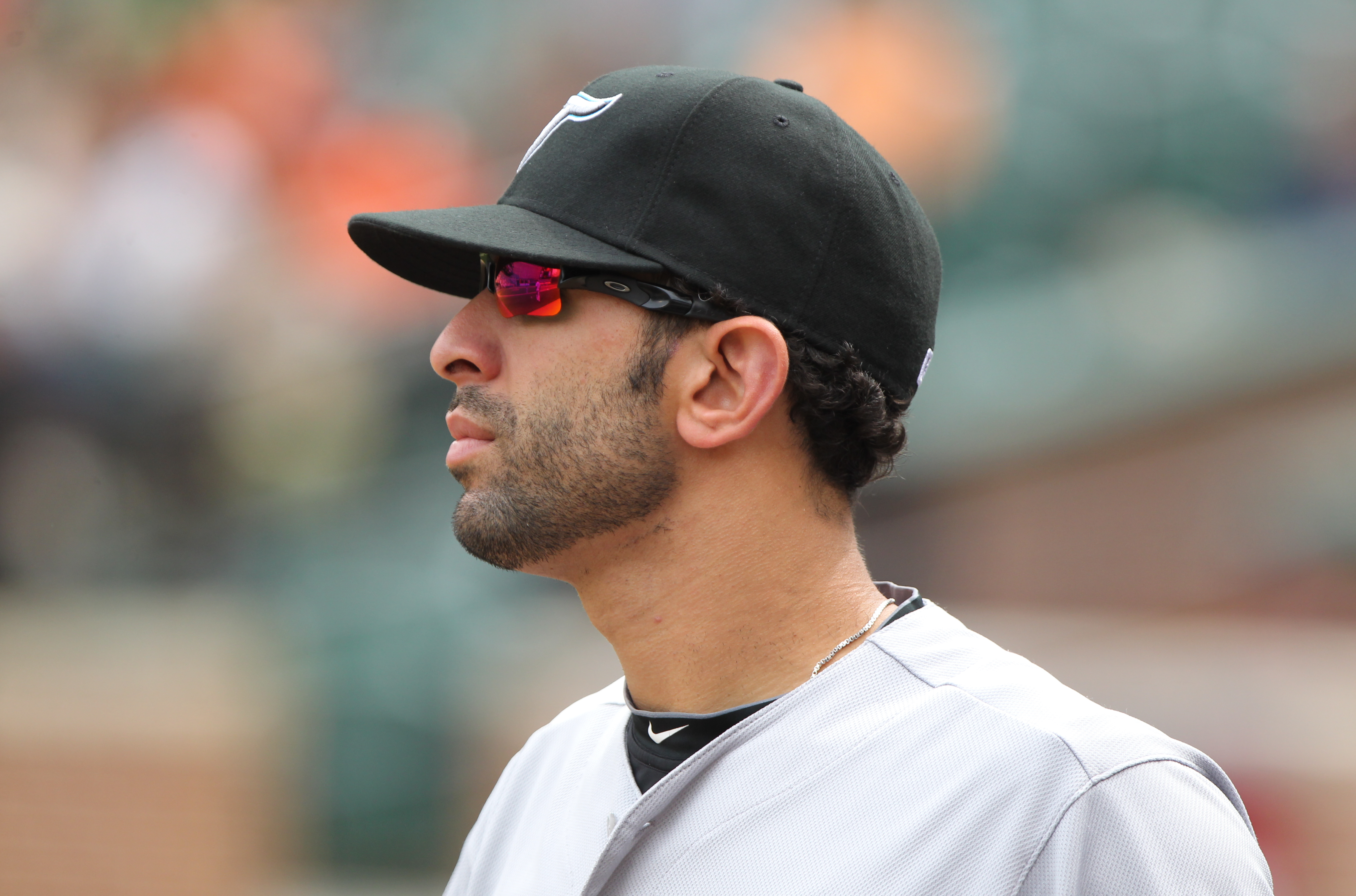 Blue Jays at Orioles September 1, 2011